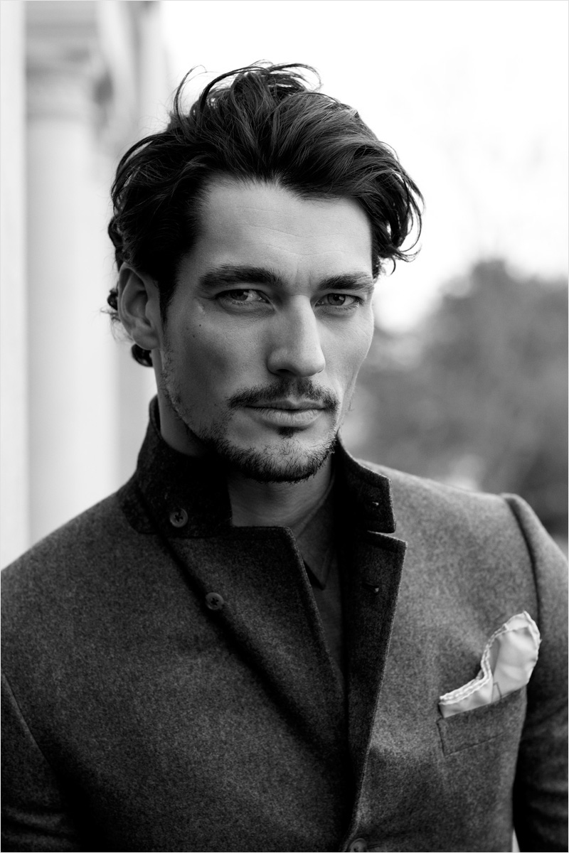 Photoshoot of David Gandy for GQ Japan by Arnaldo Anaya-Lucca in 2009